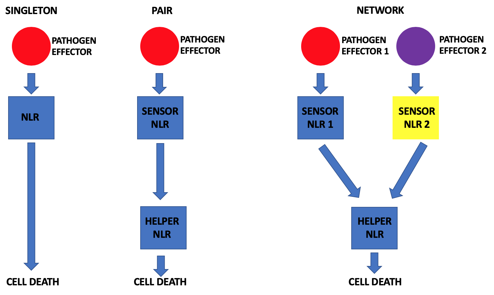 NLRs can work as singletons, pairs and networks. This image represents all three situations.